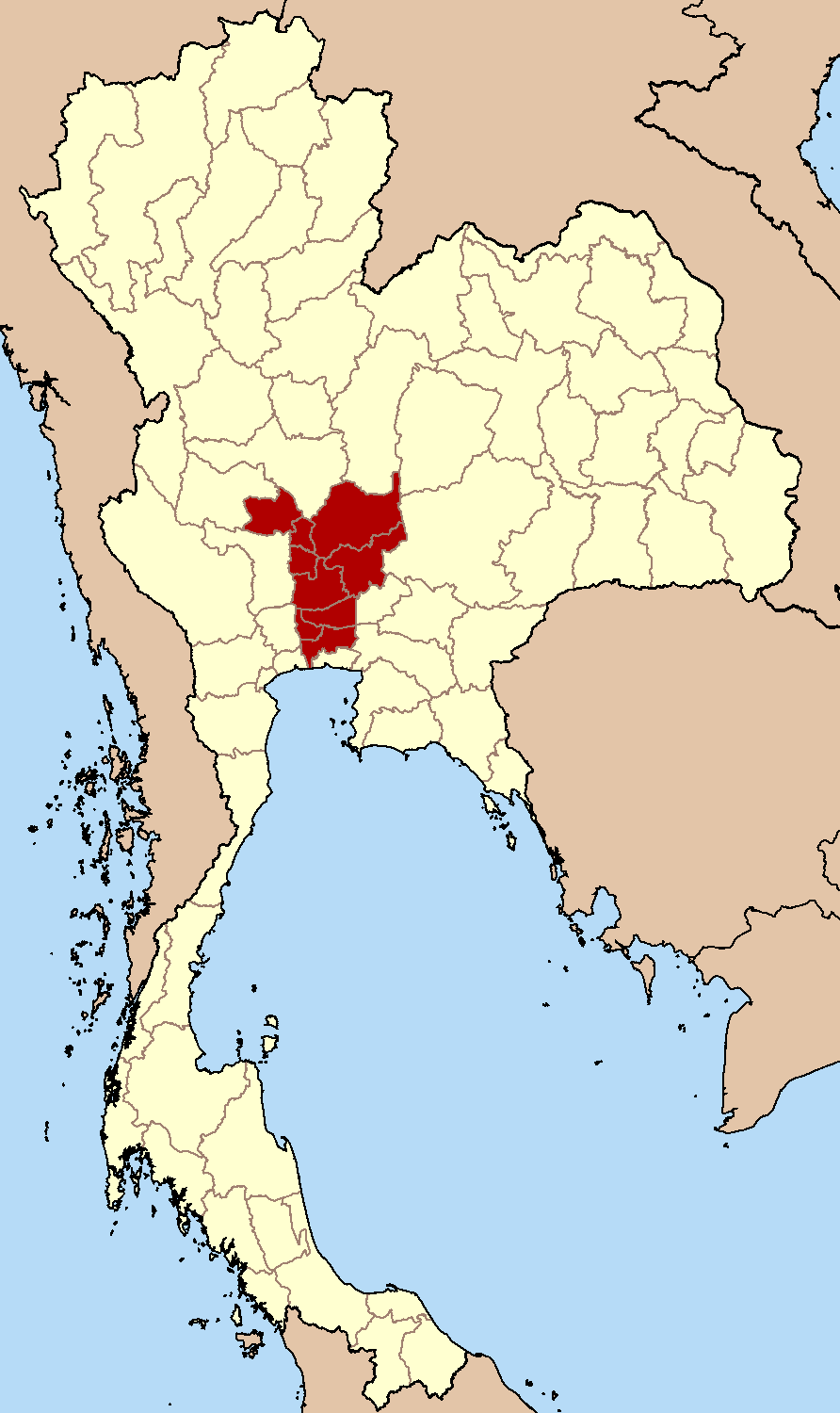 Map of Thailand highlighting the provinces of Central Thailand, based on the system of Office of the National Economics and Social Development Board. There are 9 provinces including Bangkok.